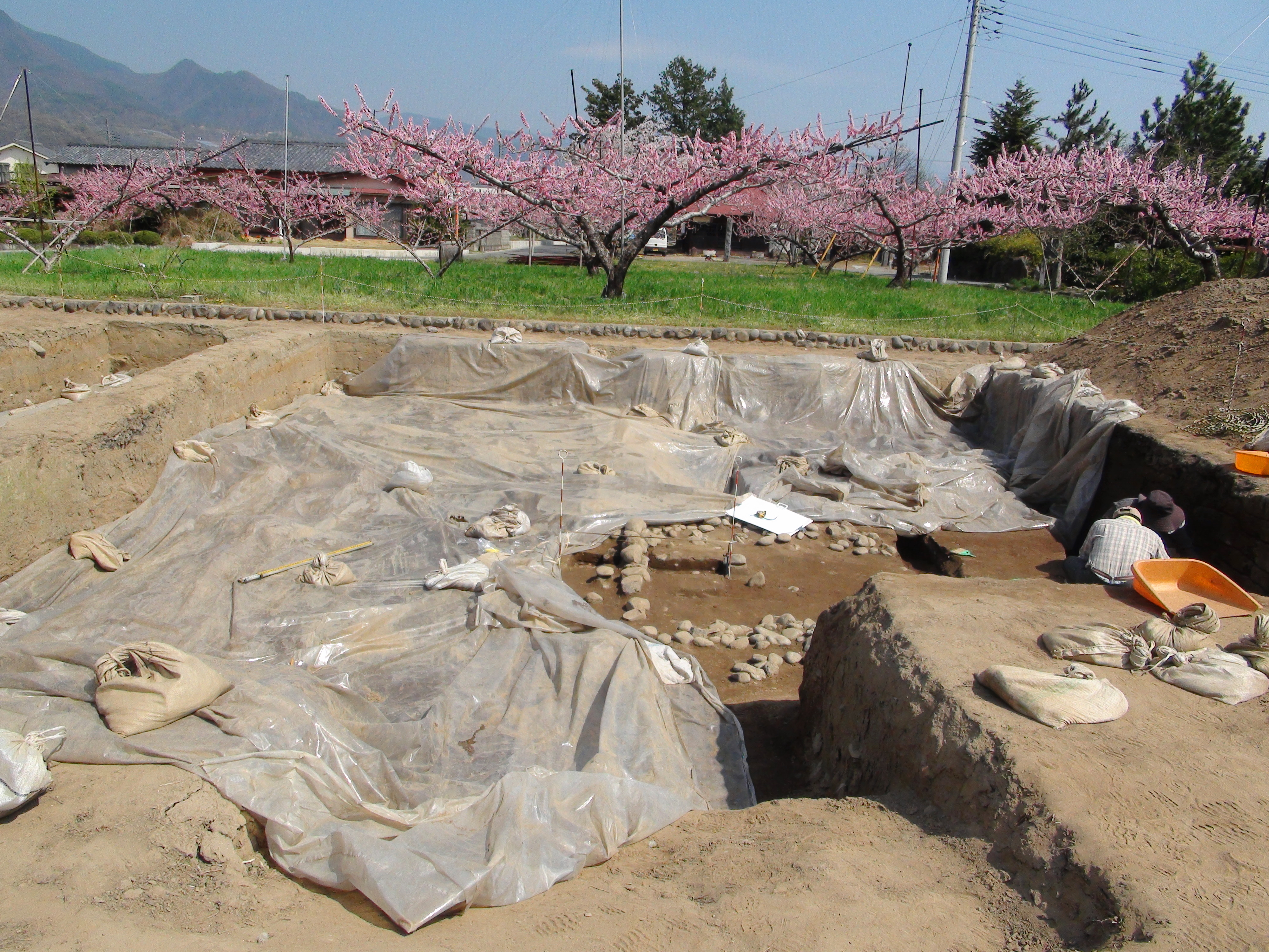 Excavations of temple of Teramoto